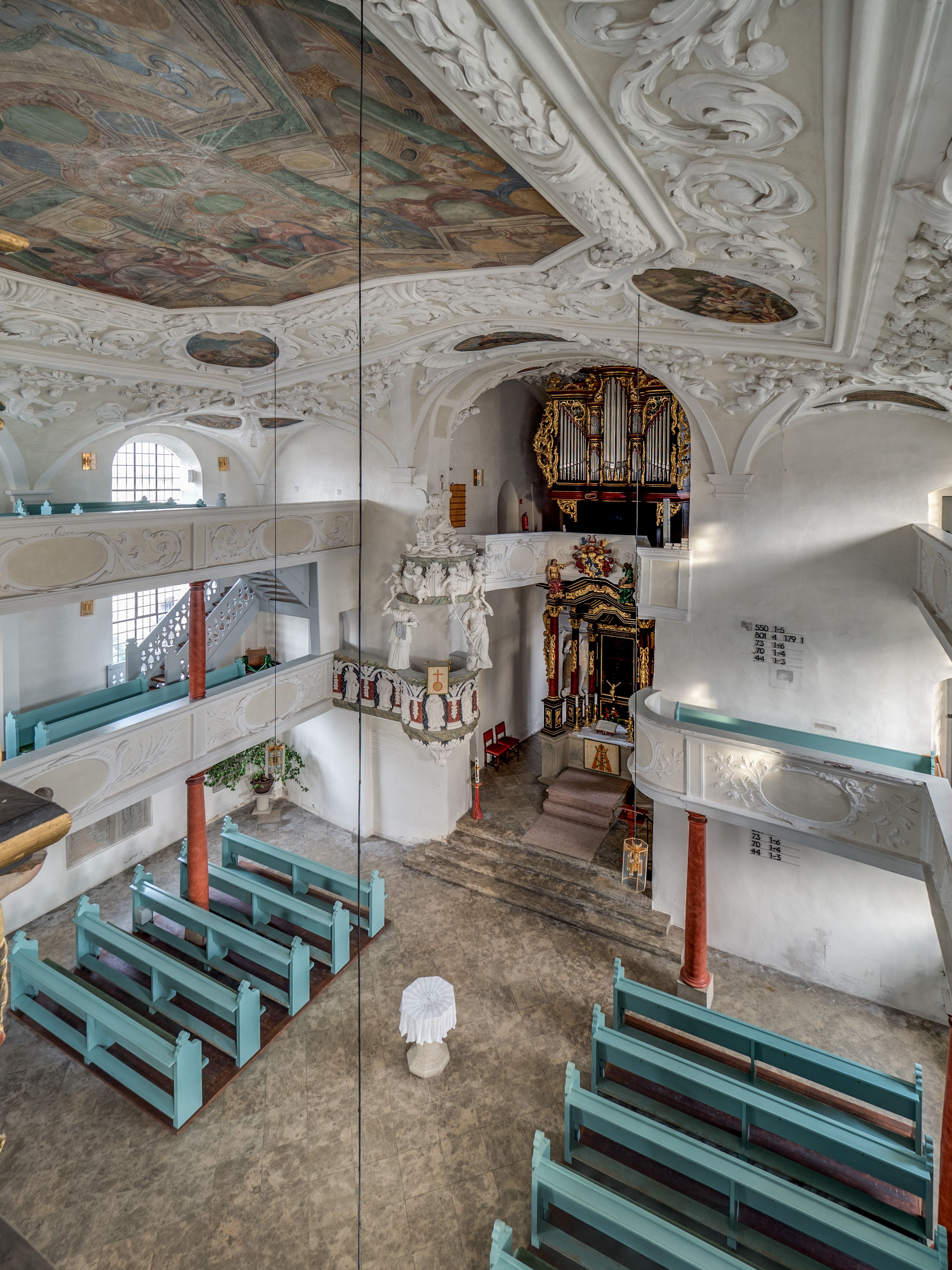 Interior of the Evangelical Church of St. Lawrence (Thurnau)